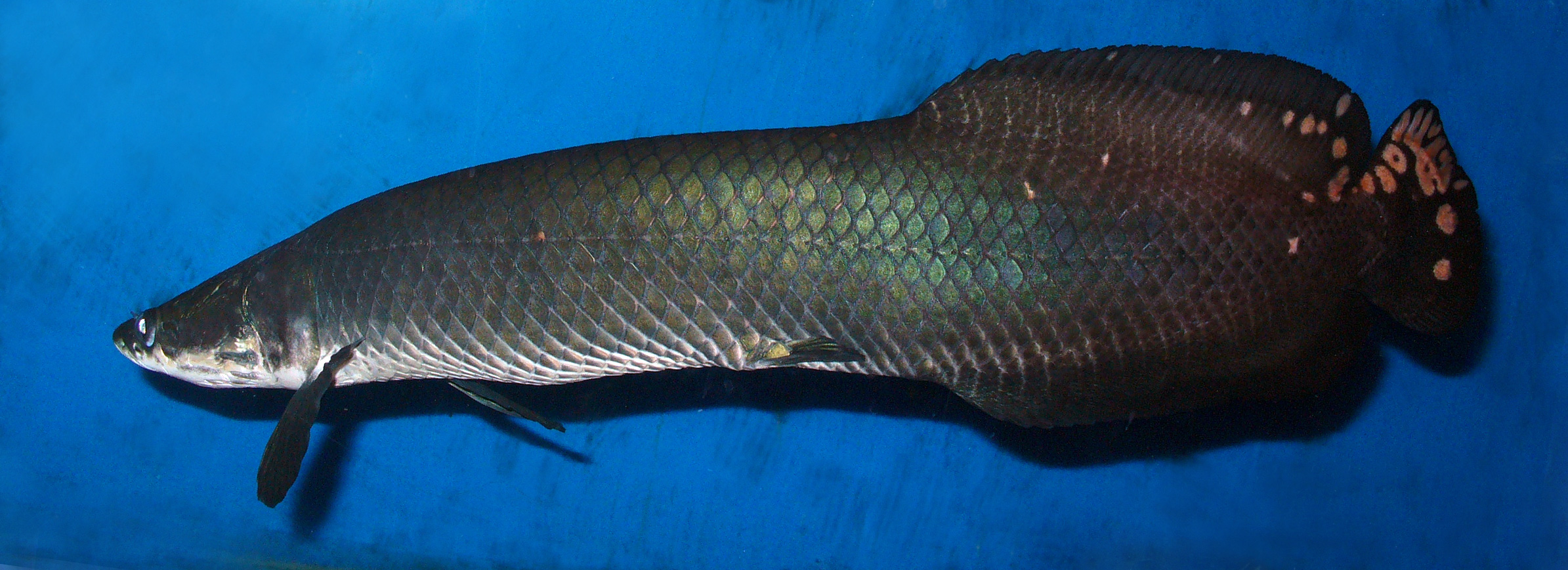 An arapaima, pirarucu, or paiche (Arapaima leptosoma), a South American tropical freshwater fish. Photo in Sevastopol, Ukraine, zoo aquarium.